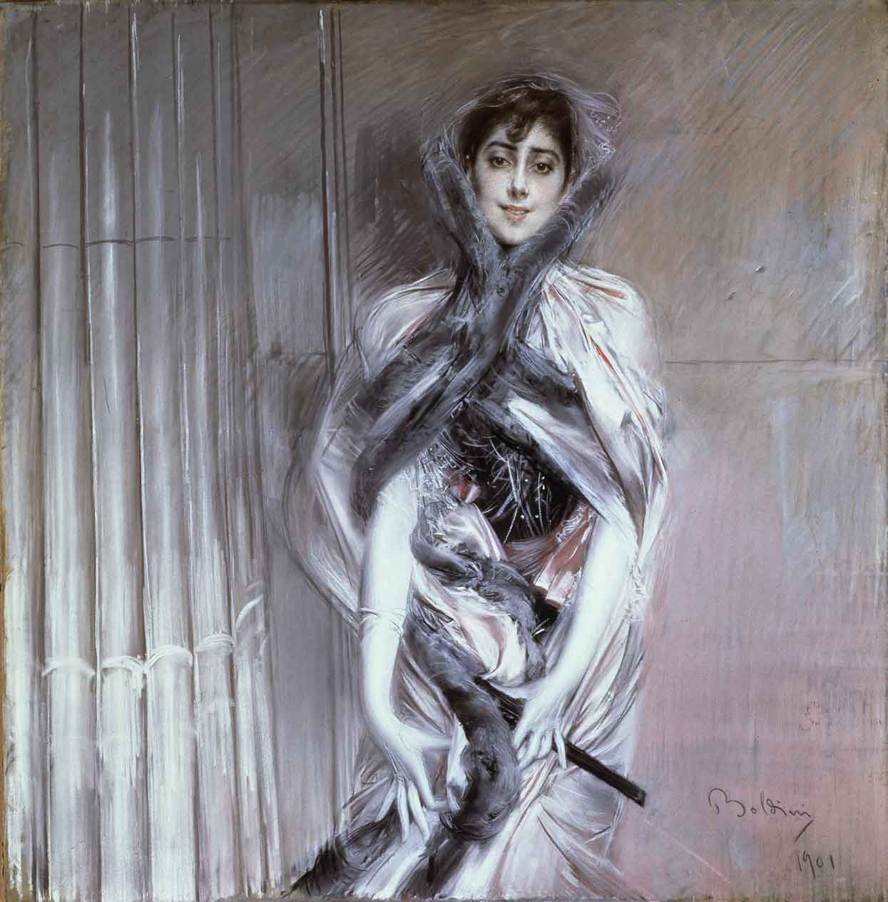 Signorina Concha de Ossa